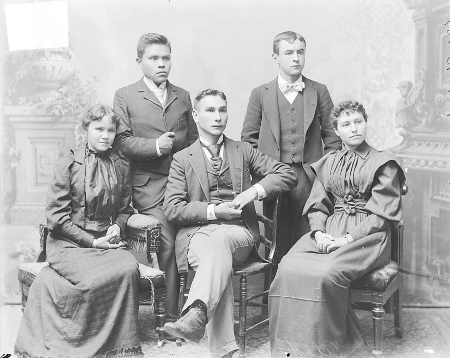 Portrait of Marsdin, Non-Native Man, and Group of Students SEP 1893